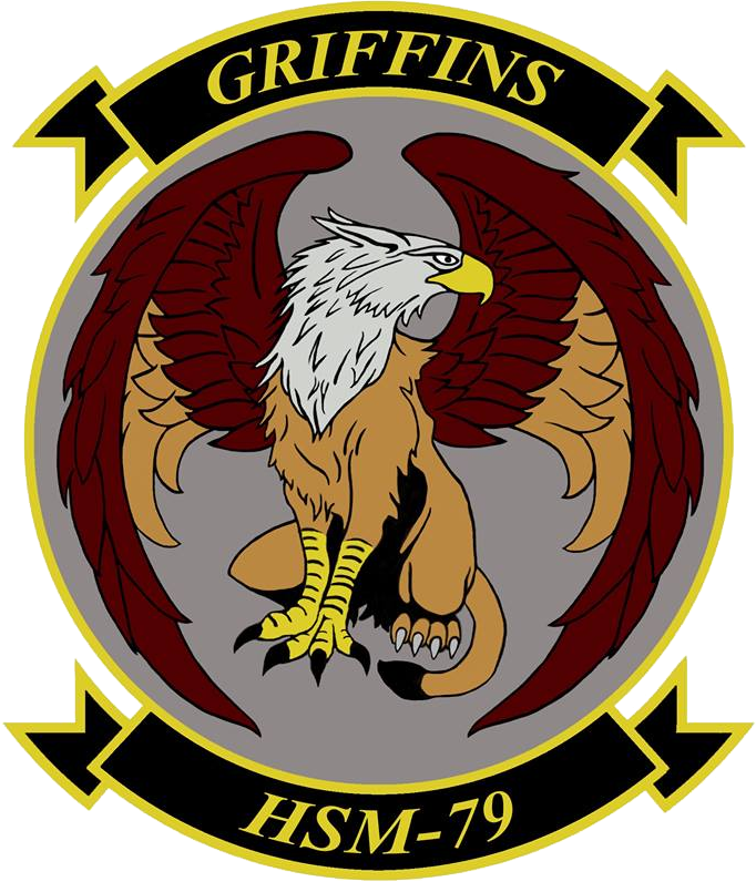 Insignia of the U.S. Navy Helicopter Maritime Strike Squadron 79 (HSM-79) "Griffins", established on 2 June 2016.